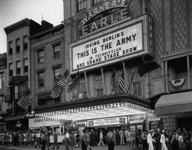 "Crowds gather for the Washington, D.C., premiere of the film This Is the Army — at Warner’s Earle Theater in Washington, D.C., on August 12, 1943. " Credits NARA, 111-SC-178981; Records of the Office of the Chief Signal Officer, 1860 - 1982; Record Group 111; National Archives.